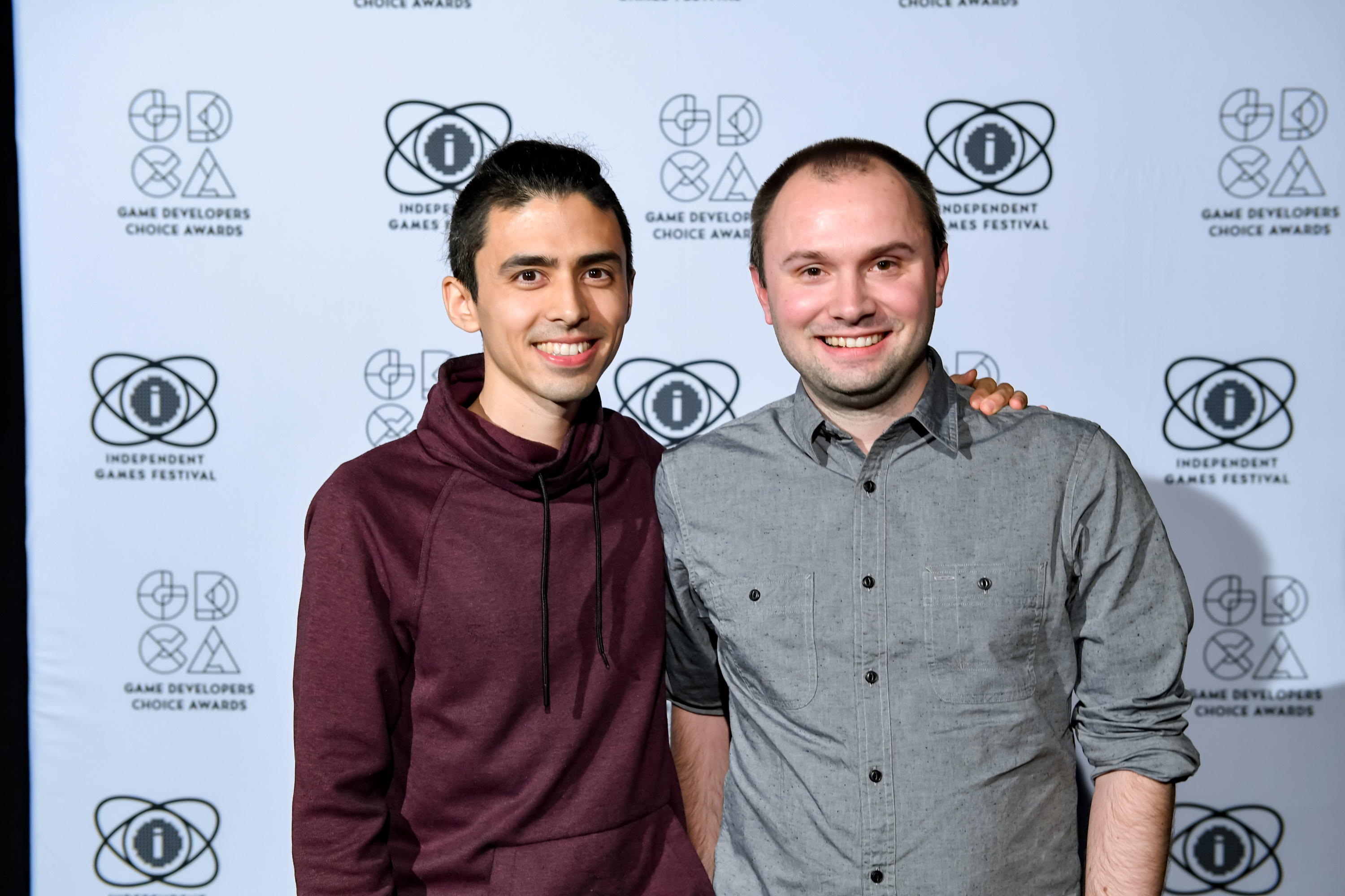 Subset Games - Justin Ma (left) and Matthew Davis at the Game Developer Choice Awards 2019